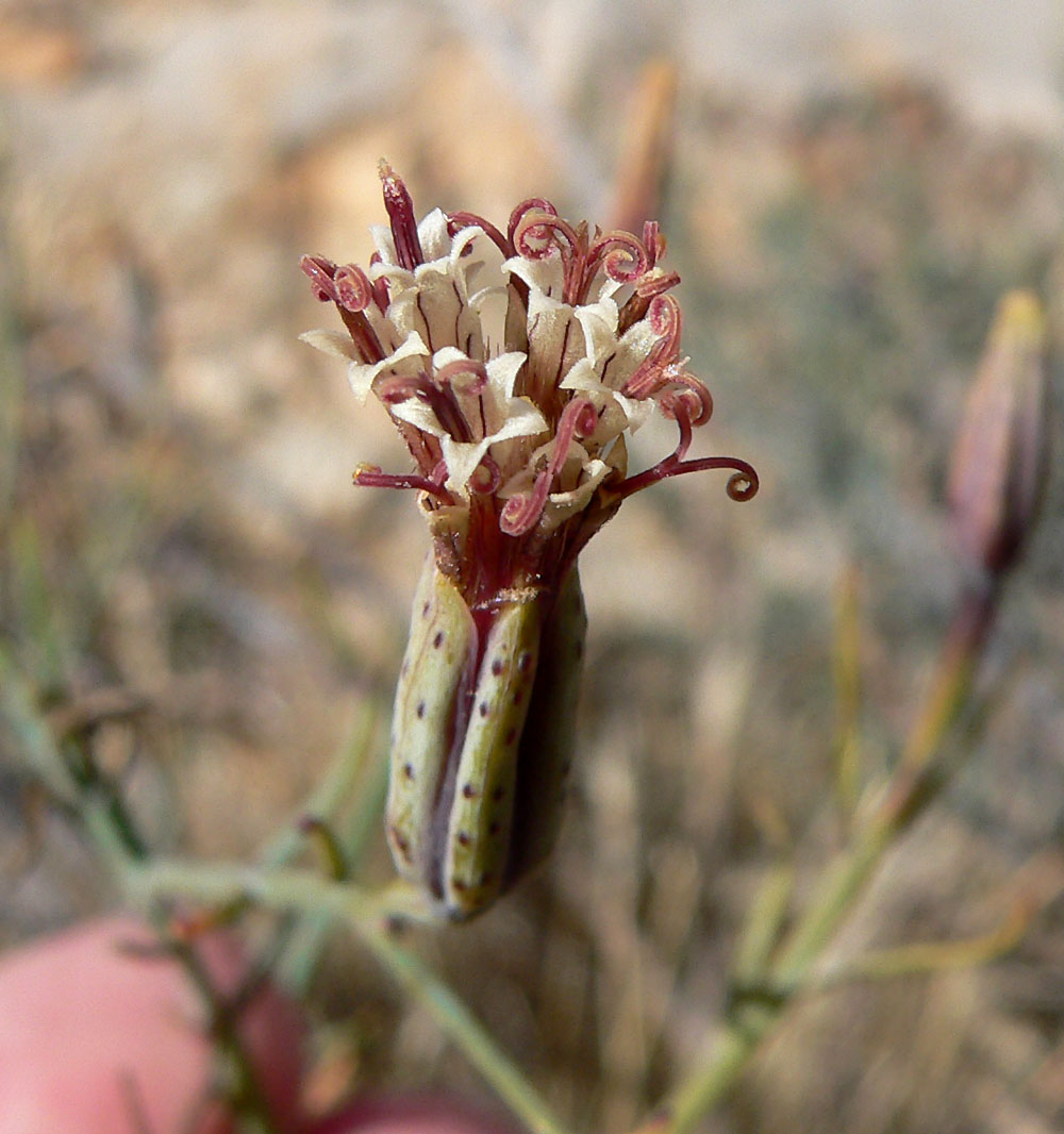 Porophyllum gracile on hillside just west of Las Vegas, Nevada (near Sahara and 215)